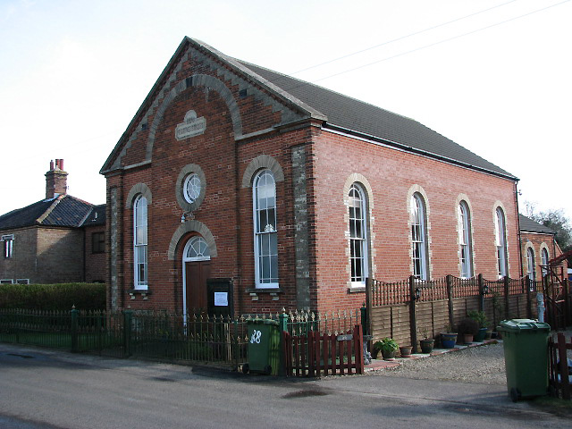 Primitive Methodist Chapel In Hills Road